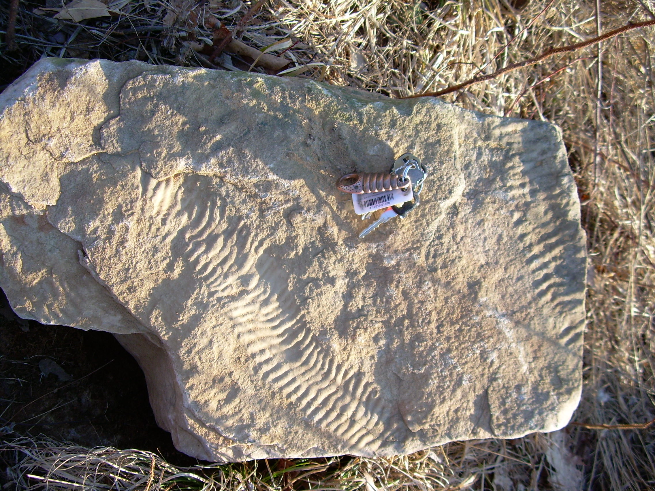 Burrow thought to be from the animal that made Climactichnites trackways.